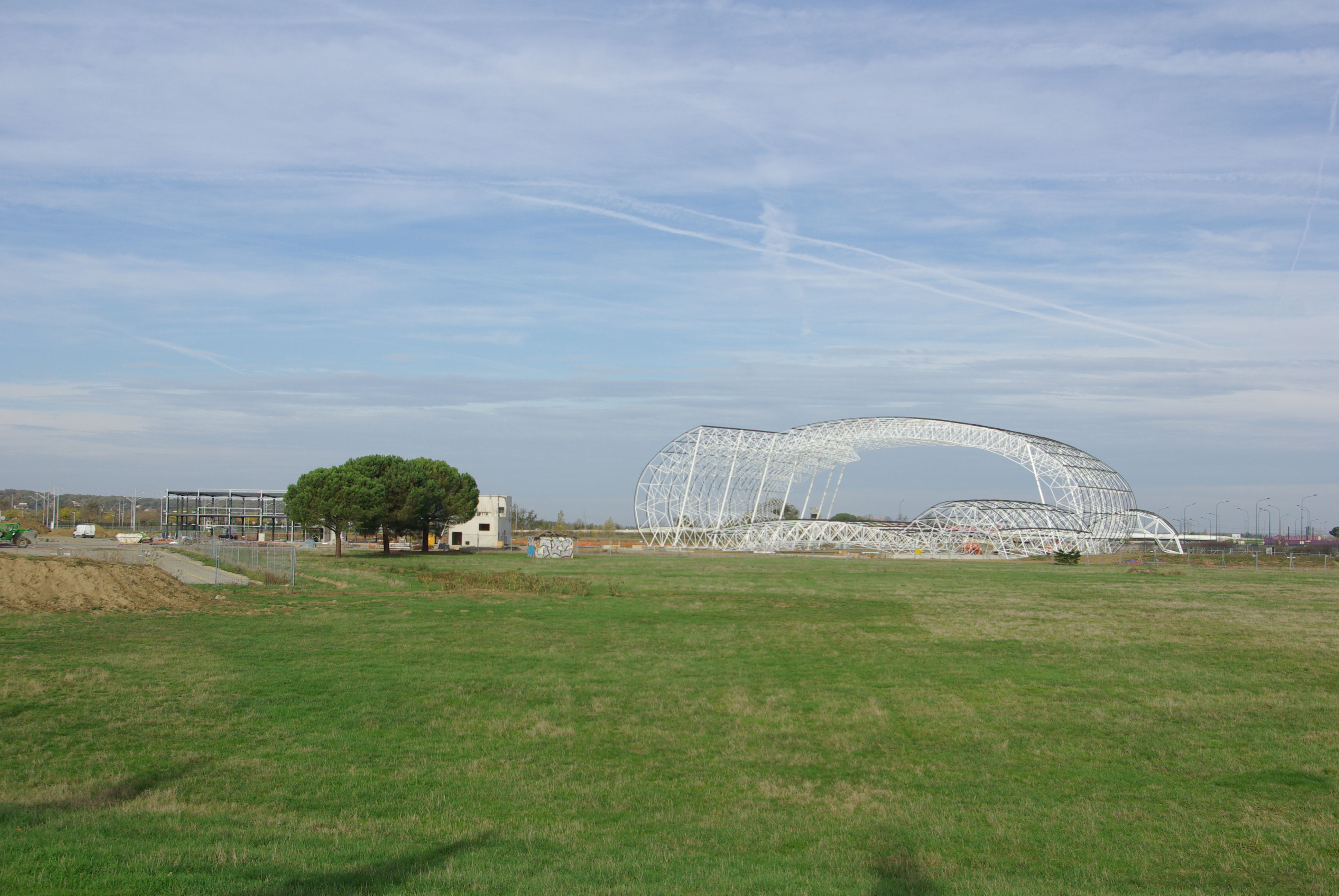 Construction of the buildings of the museum Aeroscopia in Blagnac (Haute-Garonne, France).